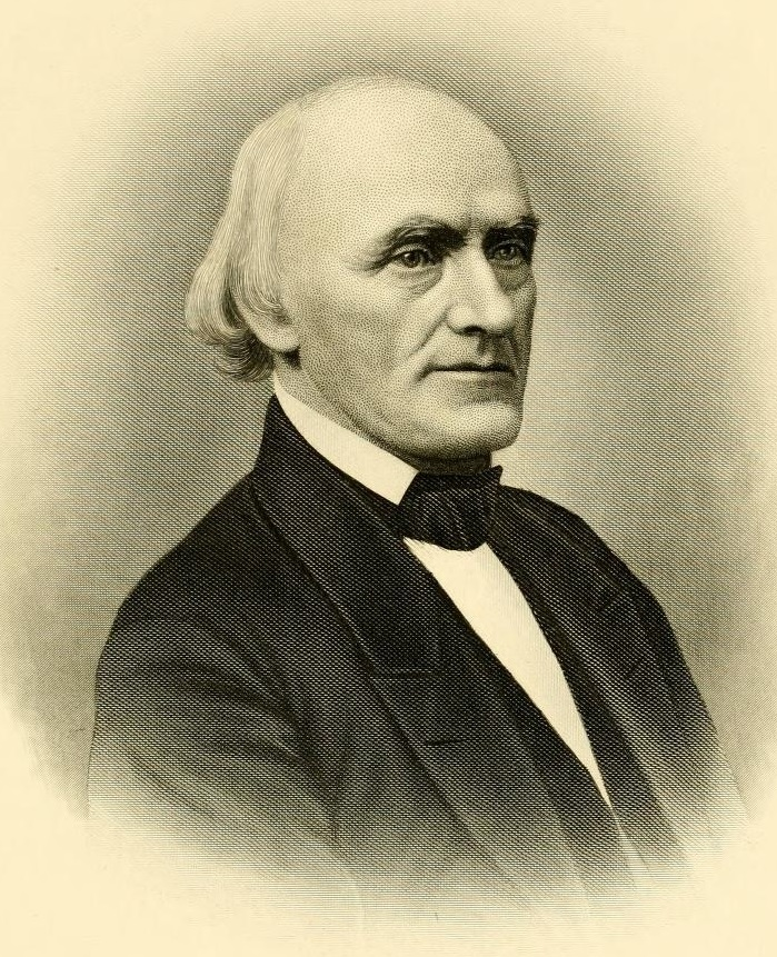 Charles Chapman (Connecticut Congressman)